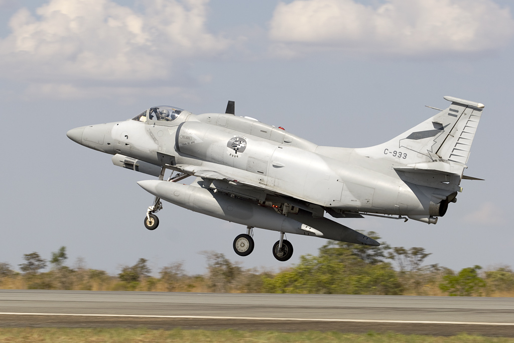 A-4AR Fightinghawk of the Argentinian Air Force